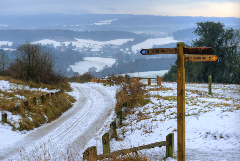 Newland's Corner is a hill just outside Guildford, in Surrey. I think the composition is right but one of the pointers on the sign is annoyingly dark... needs a little more post processing work for a different take on the same scene - in summer